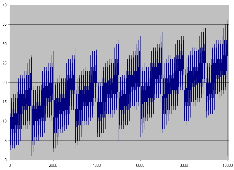 Digit sums of numbers from 0 to 10,000